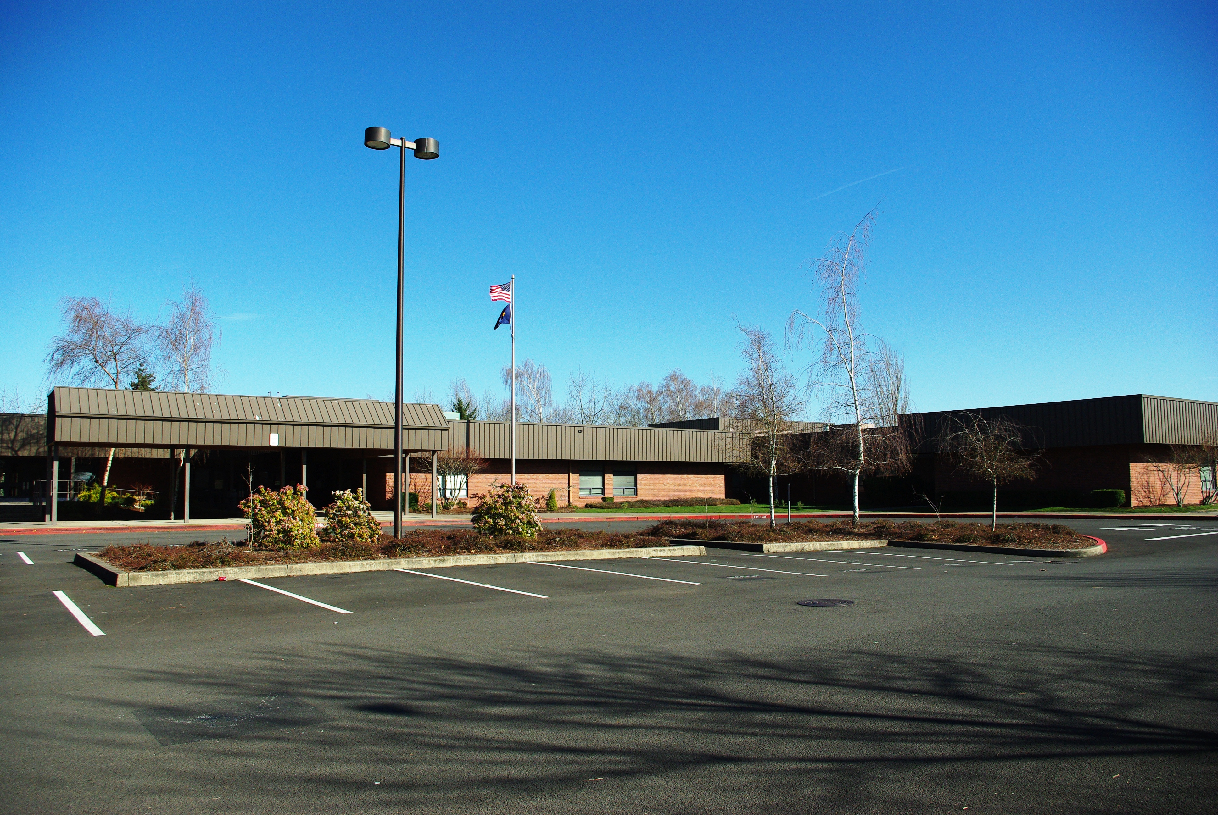 Tobias Elementary School in the Reedville, Oregon, area. Part of the Hillsboro School District.